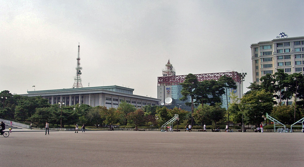 These buildings mark the headquarters of South Korea's government-run broadcaster, Korea Broadcasting System, usually abbreviated and referred to as KBS. As a public broadcaster, KBS has the right to collect license fees on every television set in the nation, an arrangement also used by the BBC and many other national public broadcasters. KBS also runs international broadcasting service KBS World, which can be received via a number of channels (World Radio Network for the radio service, for example - and in North America, SiriusXM carries World Radio Network); again, KBS World is similar to other countries' national broadcasters' English-language international services. The glassy middle building is the International Broadcast Center, which was built to allow foreign media crew to broadcast coverage of the 1988 Summer Olympic Games here in Seoul, to their home countries. It still displays the symbol of the 1988 Games. KBS-produced soap operas and dramas are a key component of the so-called Korean Wave that has taken Asia, and parts of the world beyond, by storm.